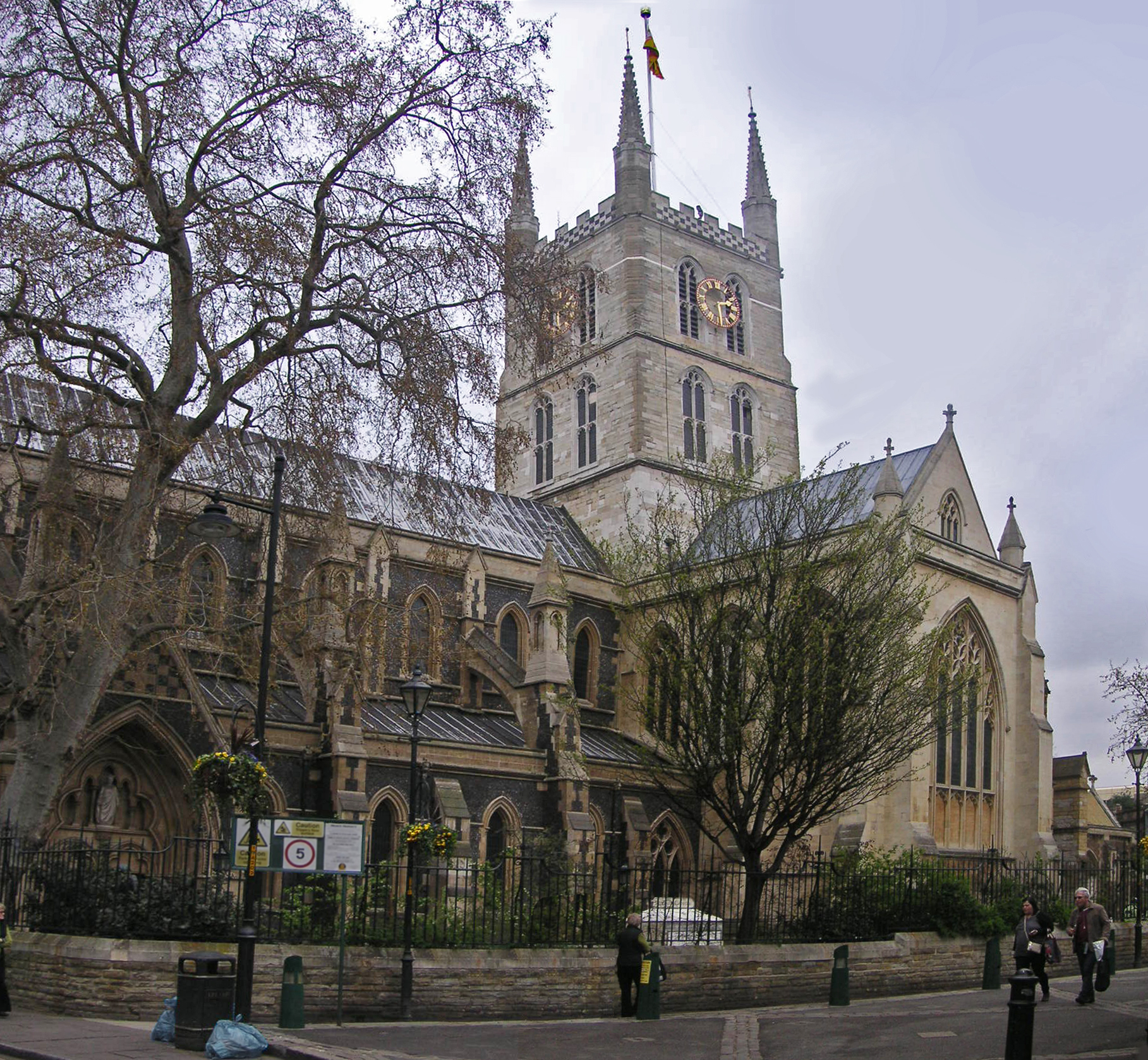 Southwark Cathedral: founded as a nun's church in the 8th century, Secular canons 852, Augustinian Canons 1106-1540. Present structure: East end 1208-35; transepts 1273; tower 1385 and 1520; present nave by Sir Arthur Blomfield 1889-97. Became a cathedral in 1905.